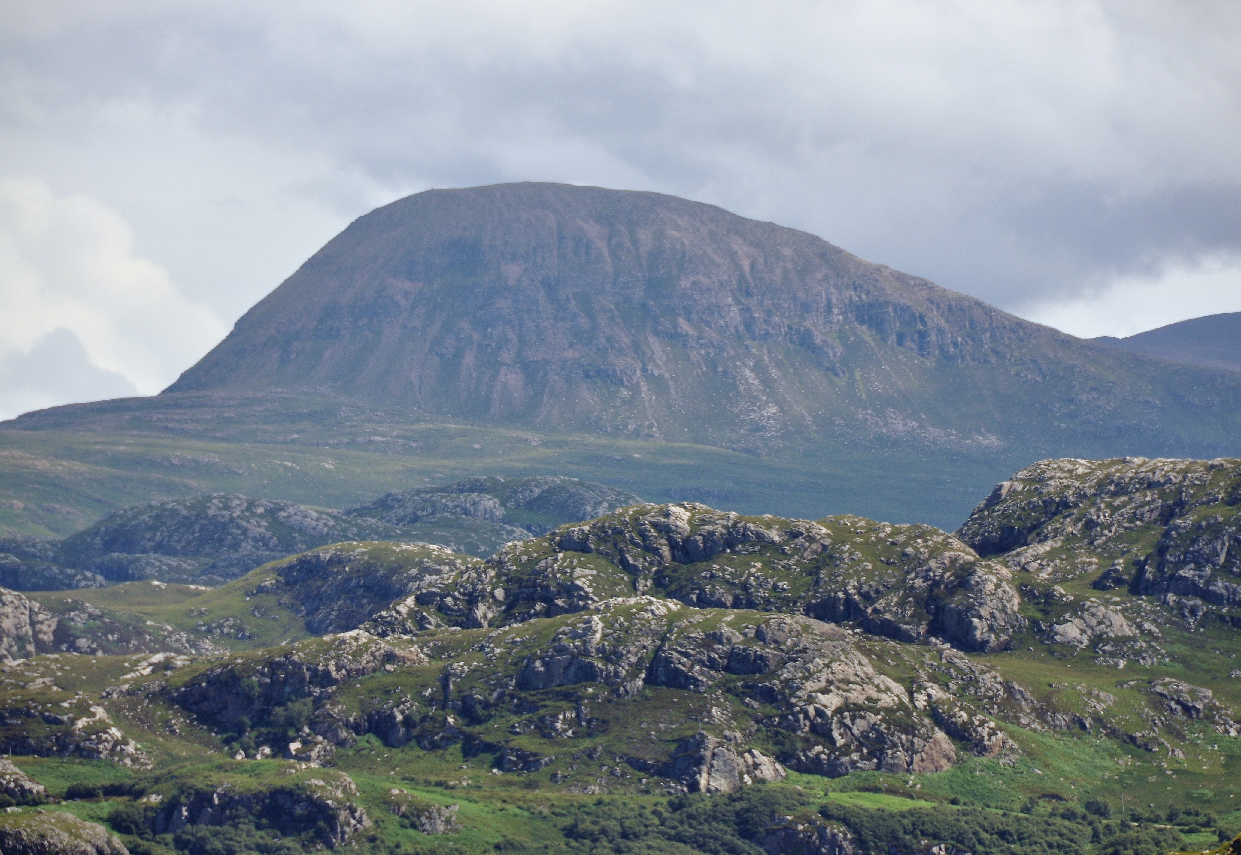 Sail Mhòr in the Scottish highlands, seen from the coast at Gruinard Bay